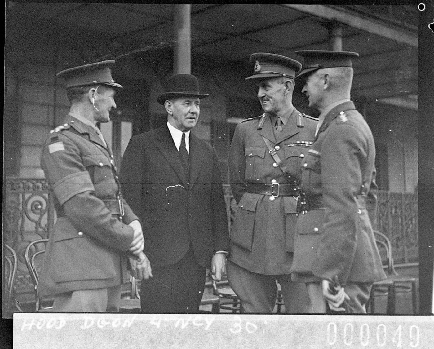 Minister for Defence talks with three senior officers (Officers' School group)